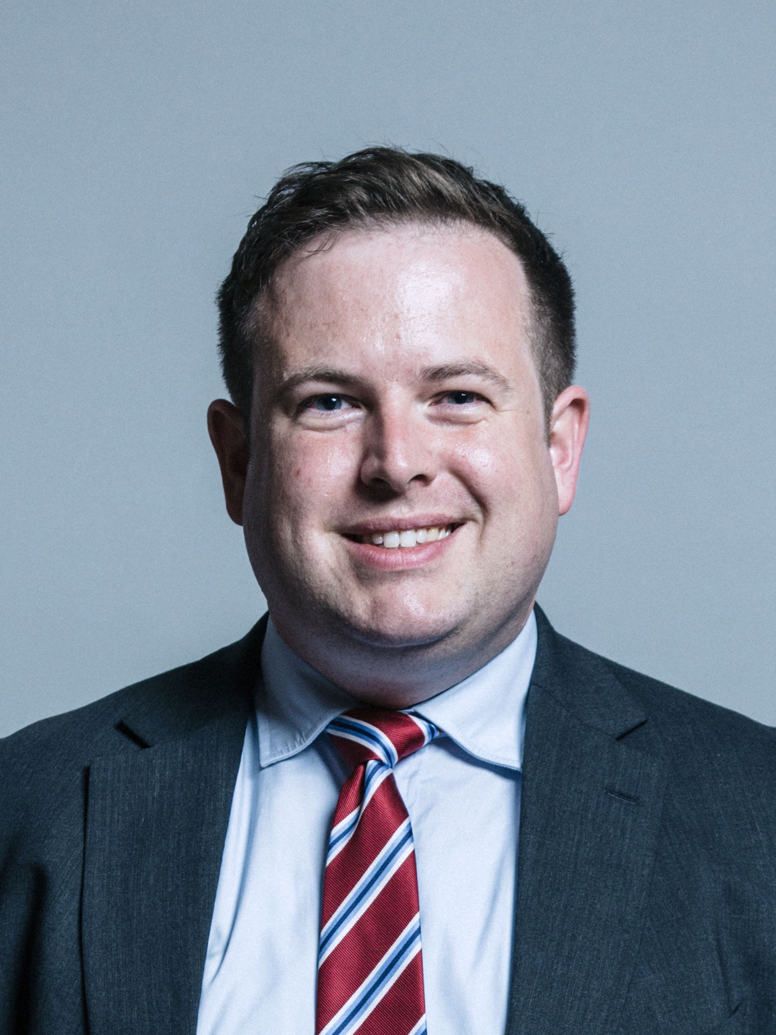 Official portrait of Stephen Doughty